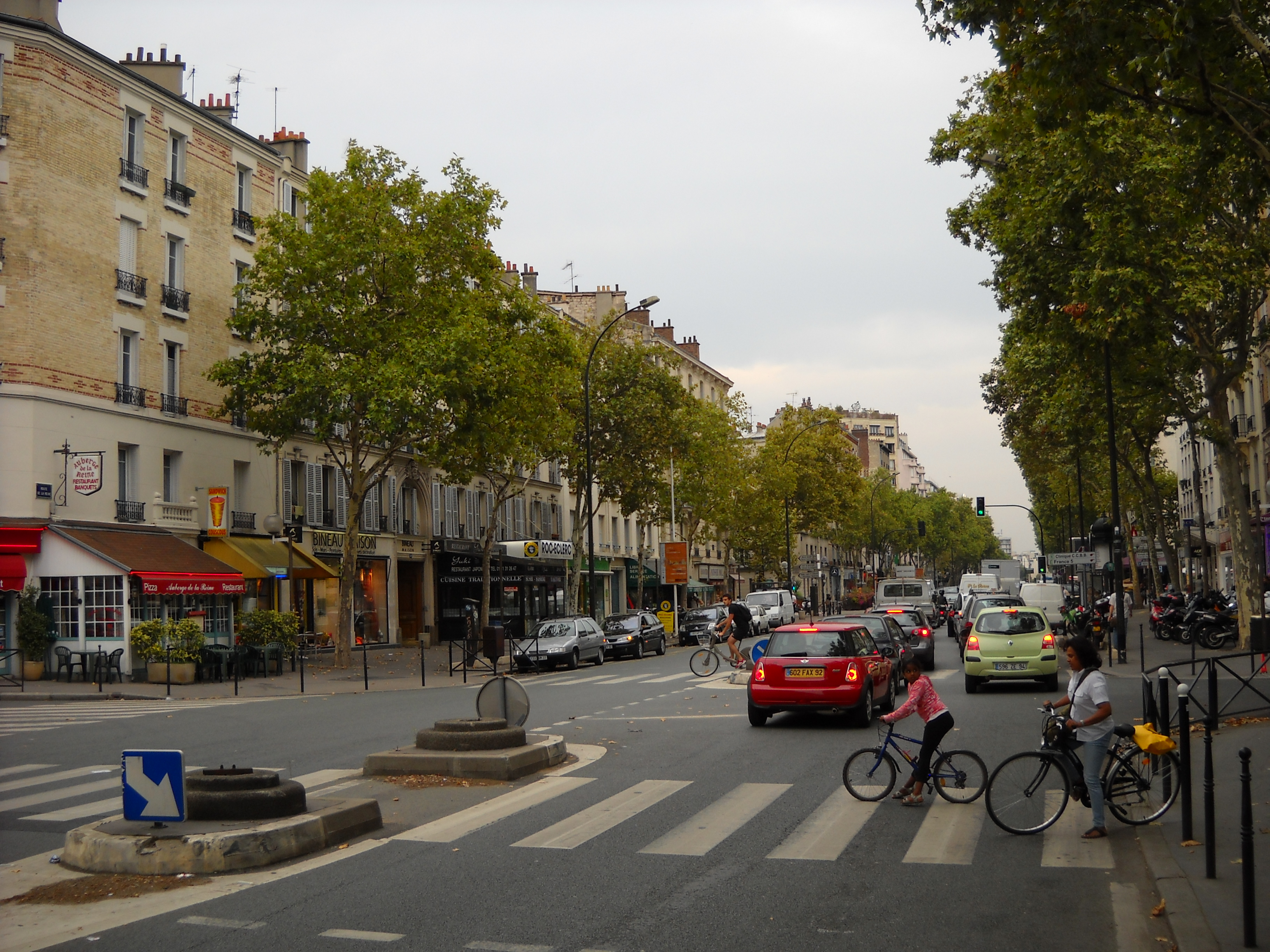 Cours de la Reine, in Boulogne-Billancourt, Hauts-de-Seine, France.